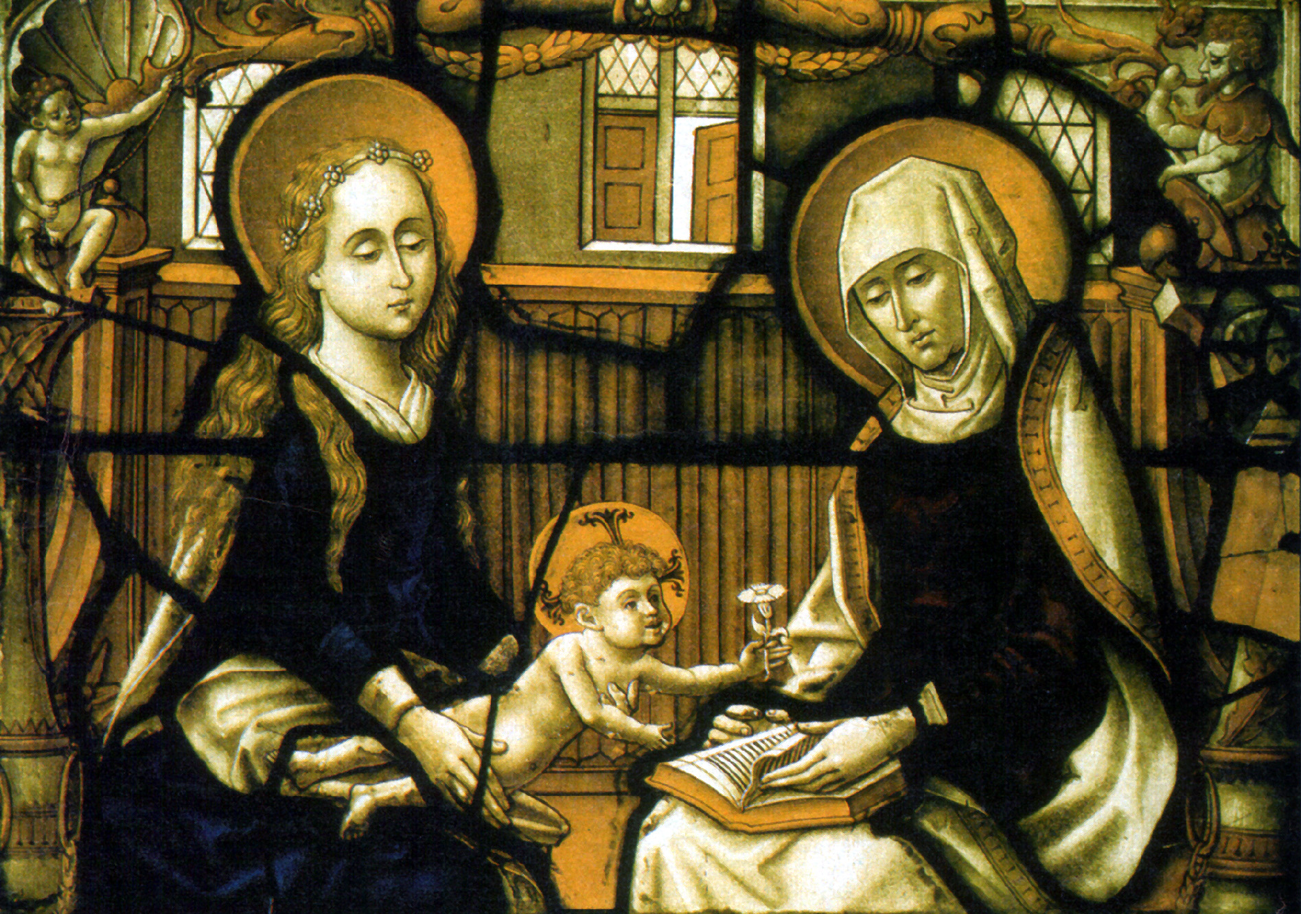 The Virgin and Child with St. Anne